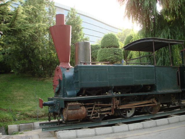 view of one of the steam-powered locomotives used on the first Persian railway section built during 1886-1888